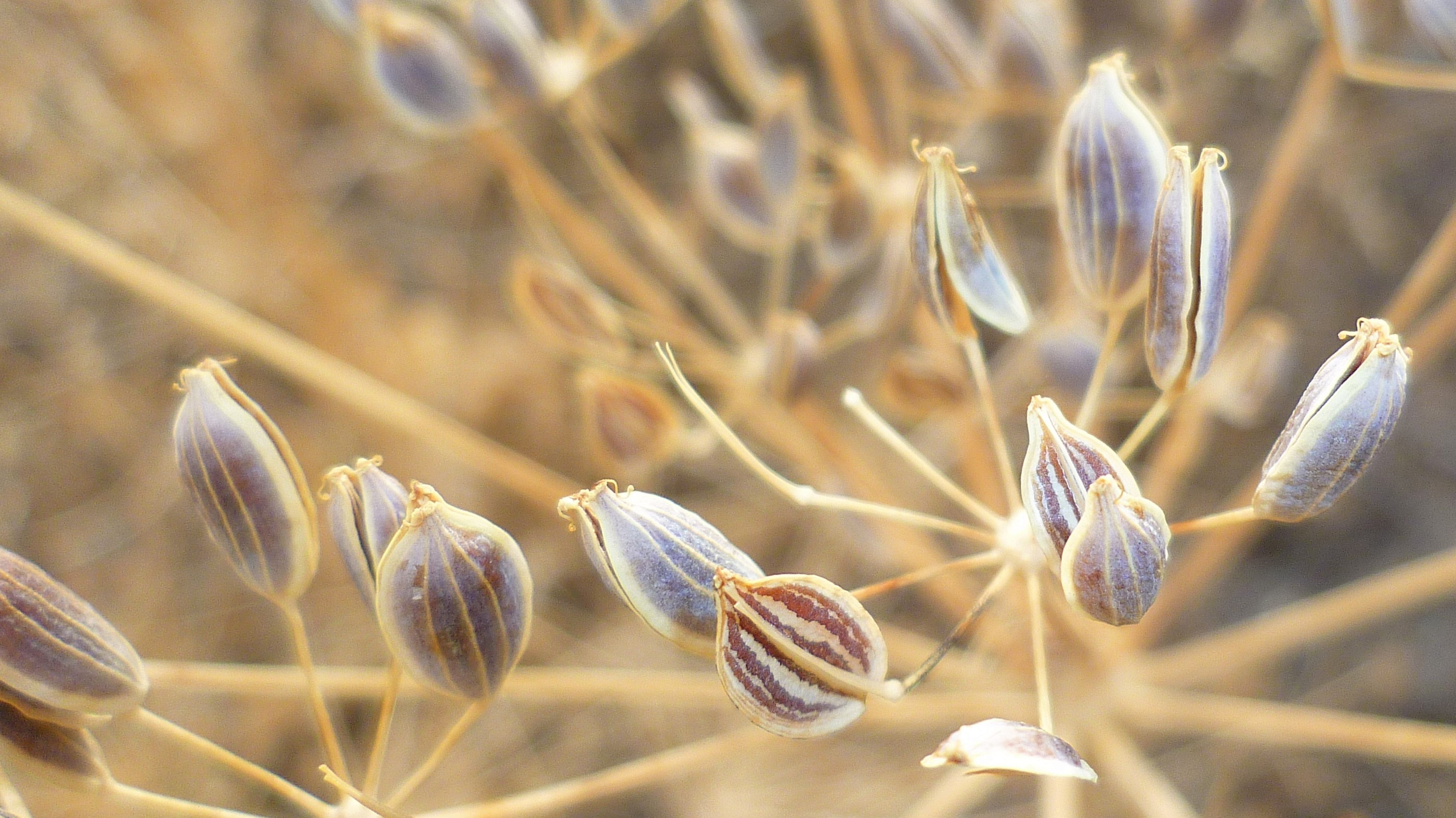 Lomatium nudicaule mature seeds at Saddlerock, Chelan County Washington